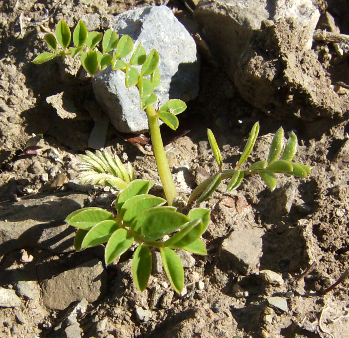 A chickpea (Cicer arietinum) seedling, Castelltallat, Catalonia